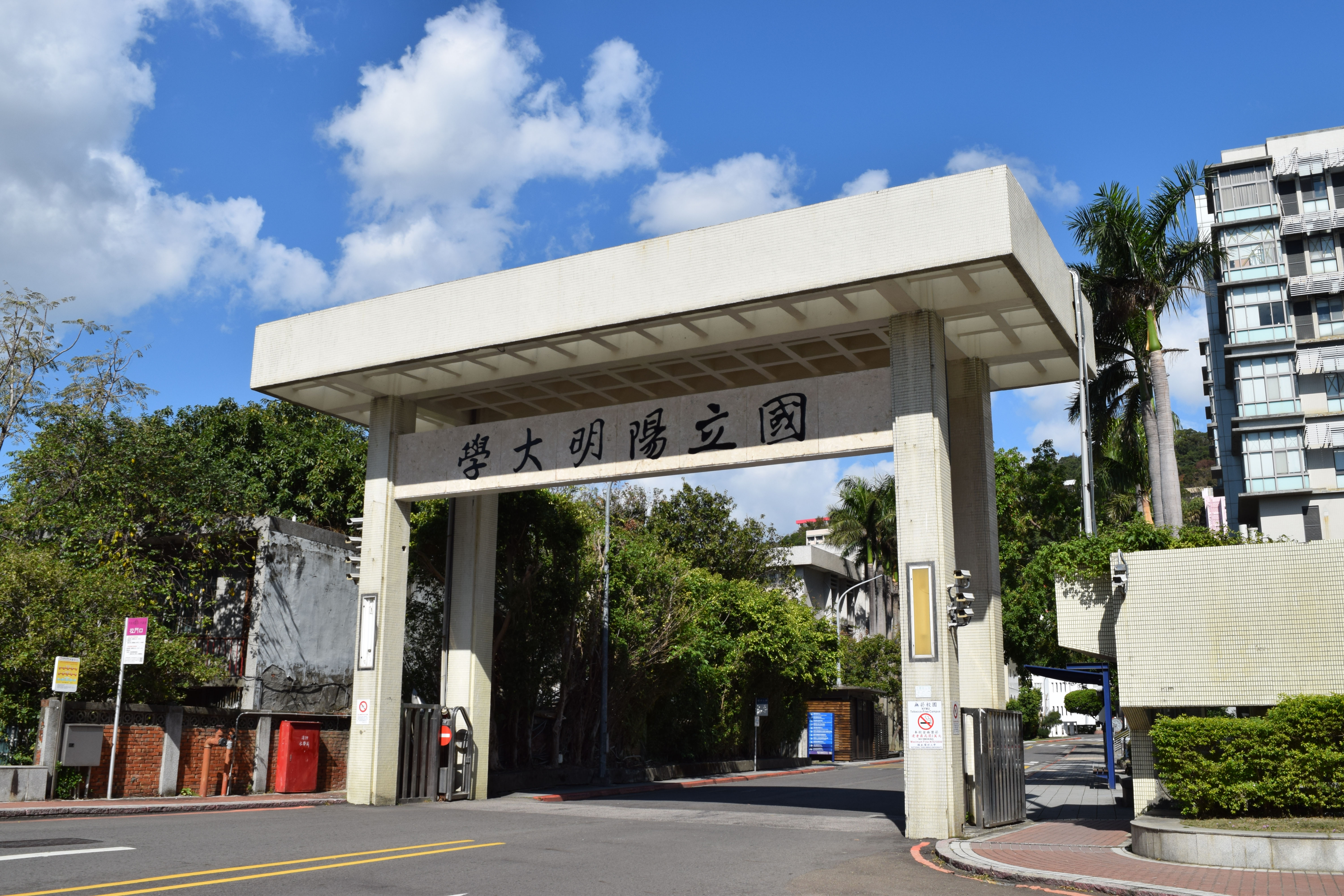 National Yang Ming University, front door